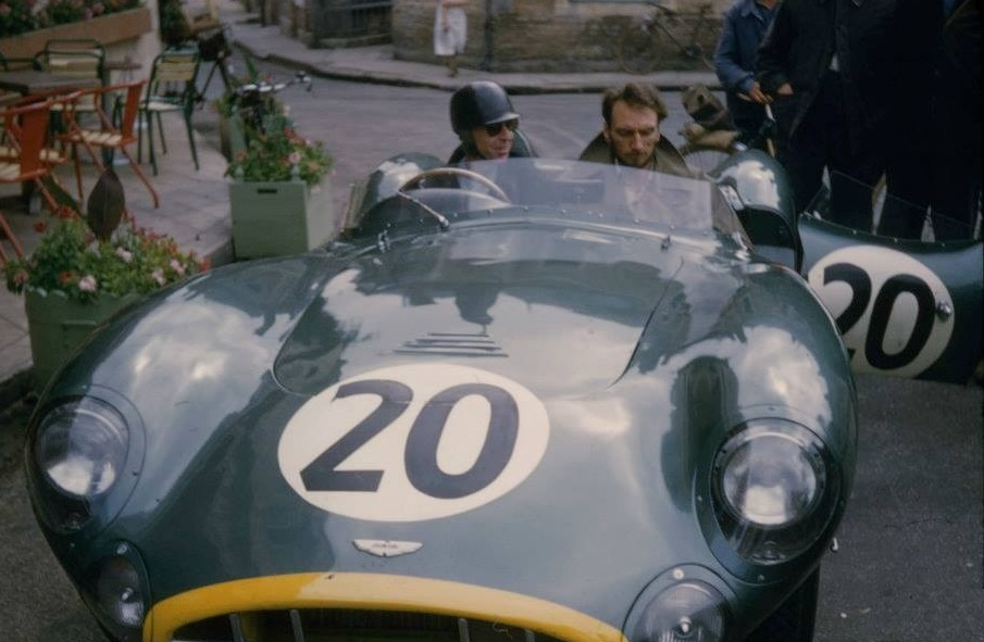 Tony Brooks parked outside the Aston Martin base, the Hotel de France, in his DBR1 race car. (Interpretation): If this is on June 06, 1957, this should be the 1957 DBR1/2, which had label #20 in the 1957 Le Mans race on June 22–23, 1957, entered by Tony Brooks and Noël Cunningham-Reid. Brooks had an accident and Did not Finish. Not sure if Brooks/Cunningham are in this picture.